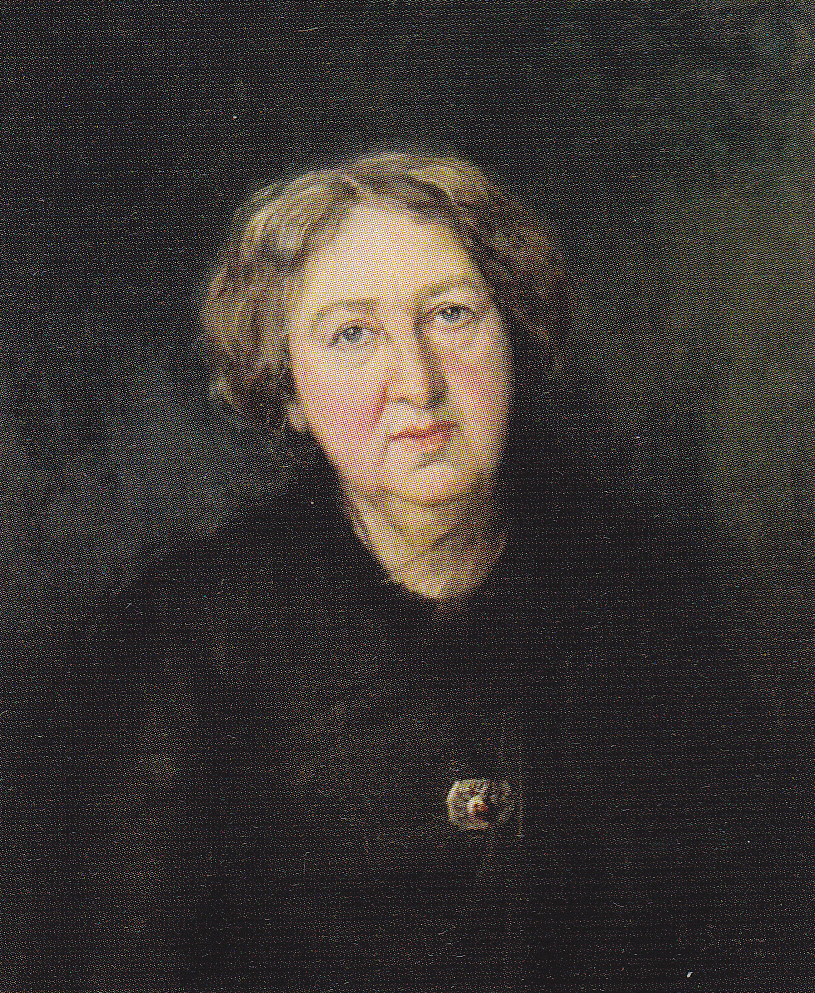 Portrait of Dutch writer Hélène Swarth (1859-1941) by Rosa Spanjaard (1866-1937). Portrait painted in 1919. Location 2016: Nederlands Letterkundig Museum, The Hague (the Netherlands)